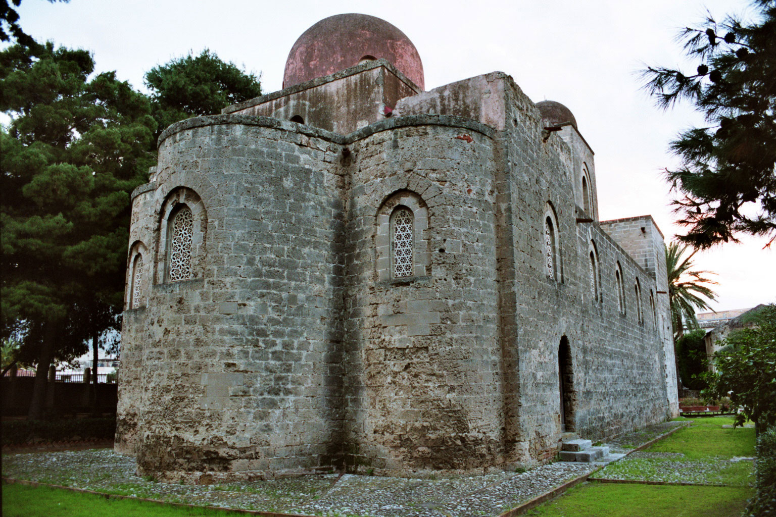 San Giovanni dei Lebbrosi, Palermo Rear view with the apsides